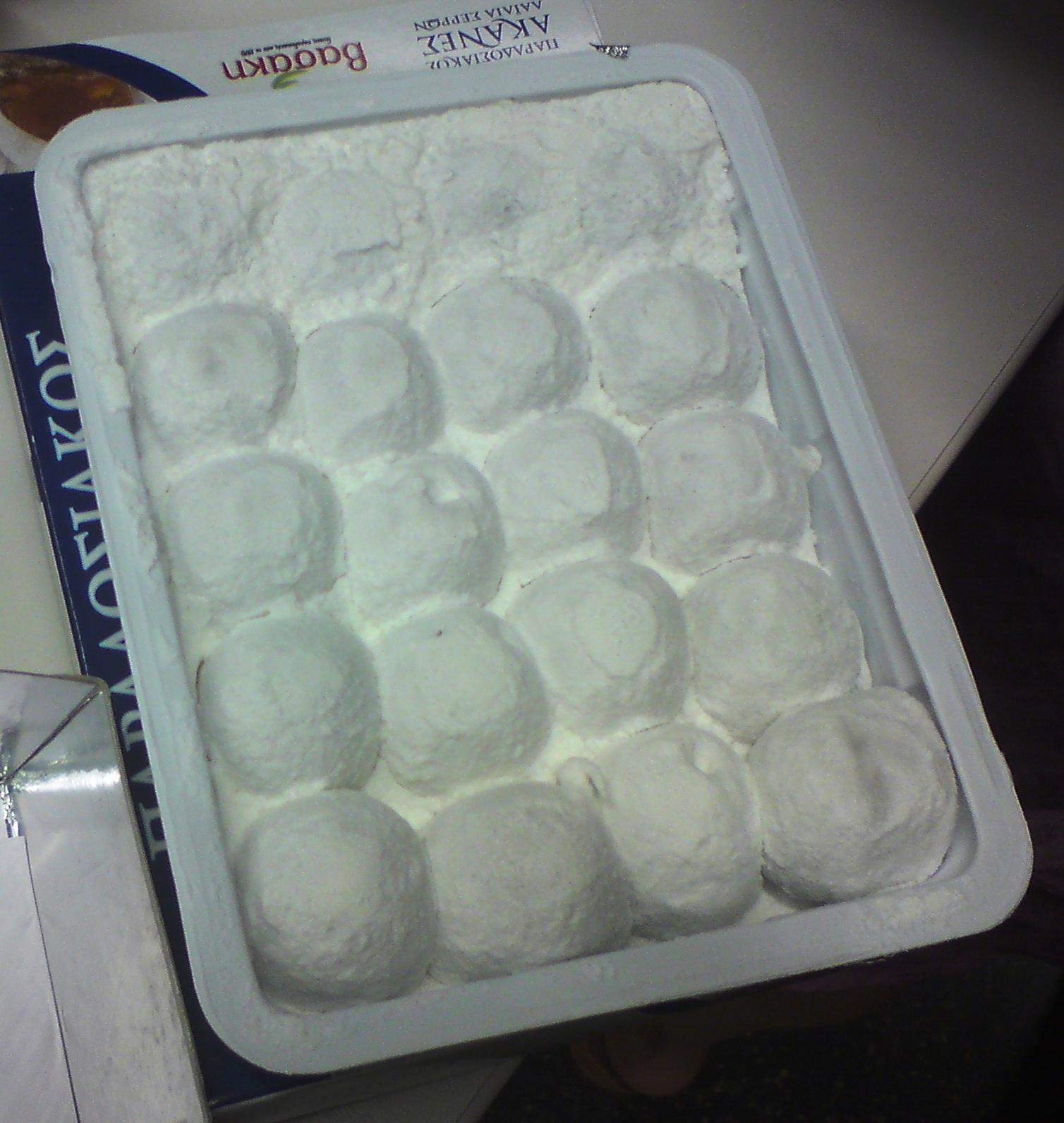 An opened package of "akanes" traditional Greek sweets from Serres, Northern Greece.